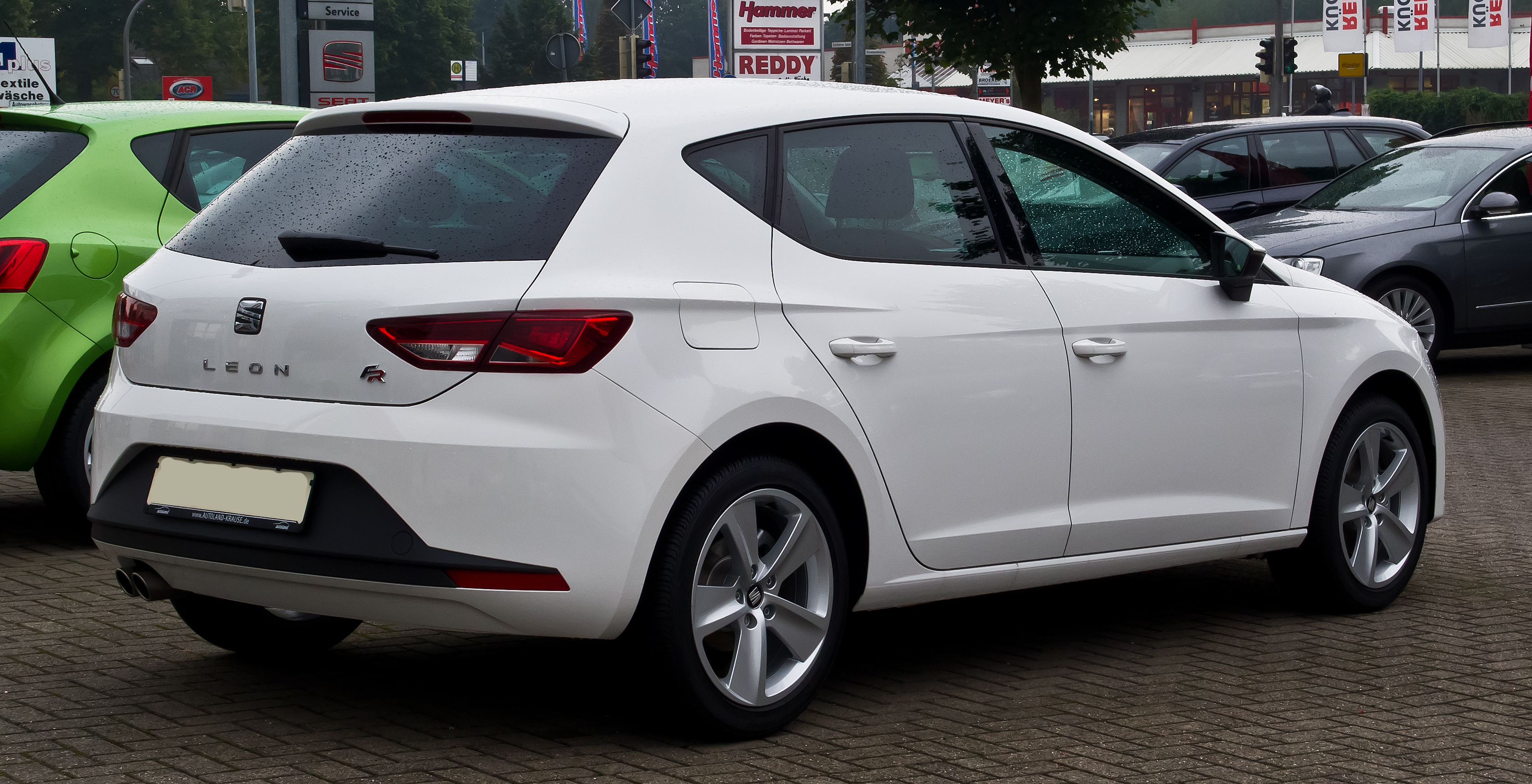 Seat Leon 1.4 TSI Start&Stop FR (III)